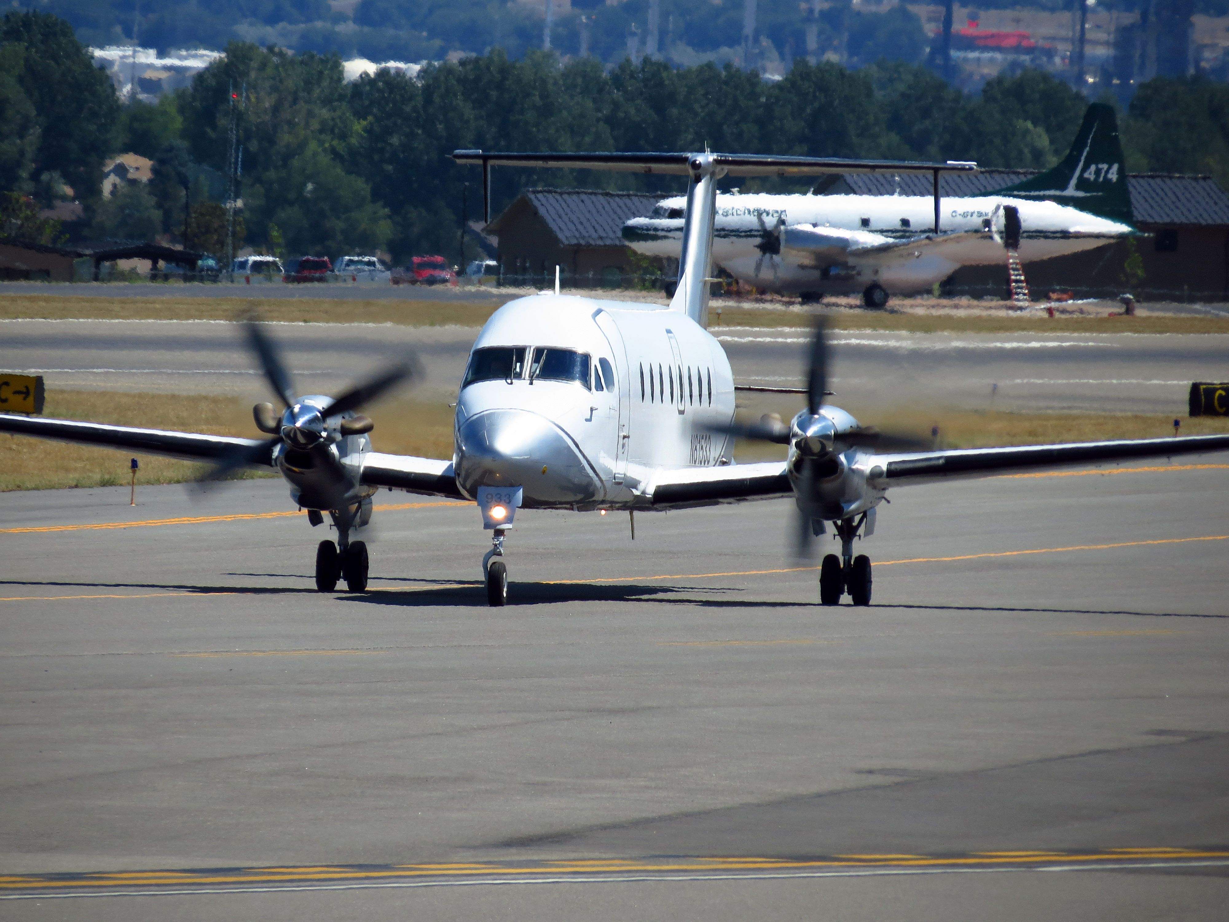 Silver Airways Beechcraft 1900 at Billings Logan International Airport.